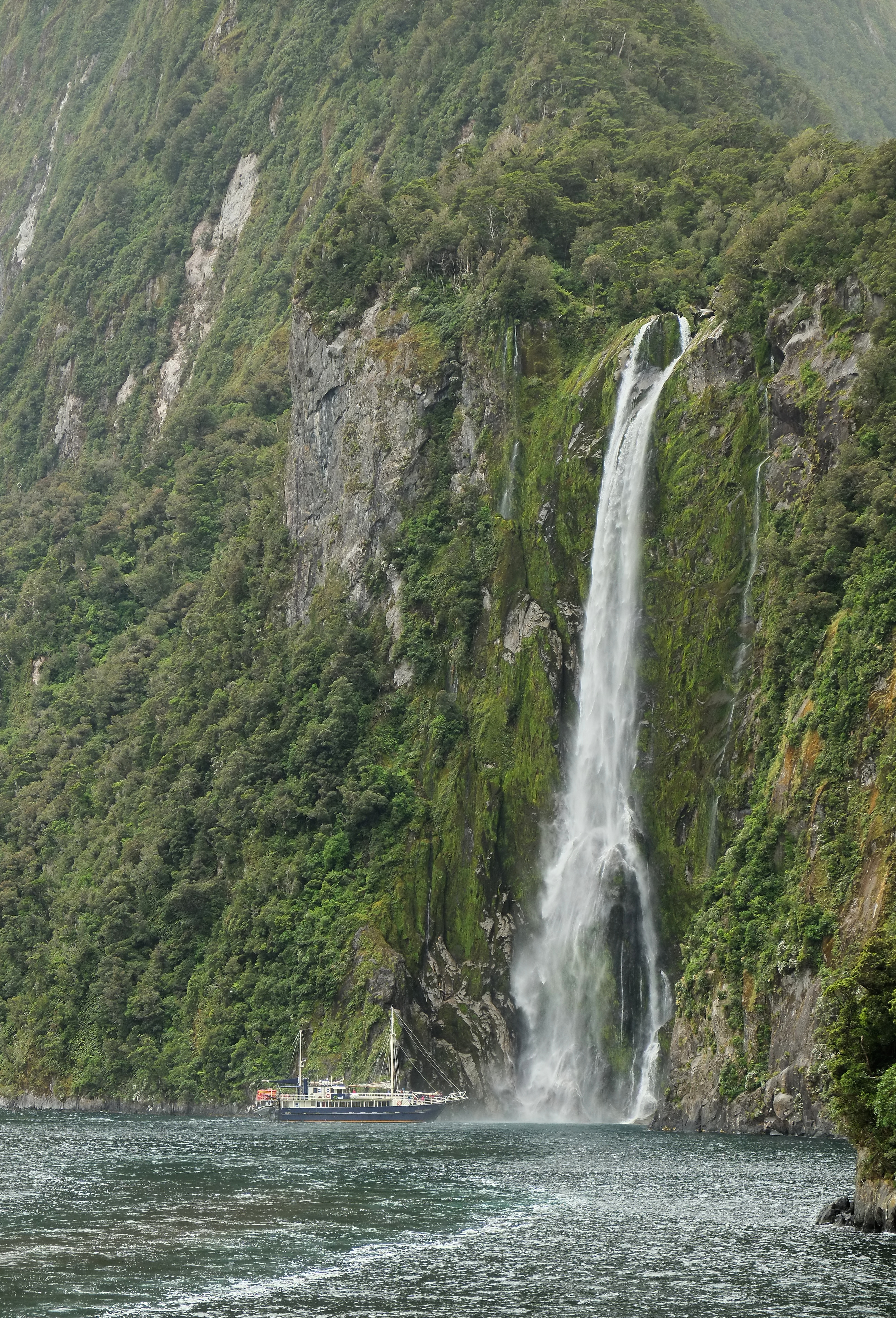 Tour boat 'Milford Wanderer' below Stirling Falls in Milford Sound